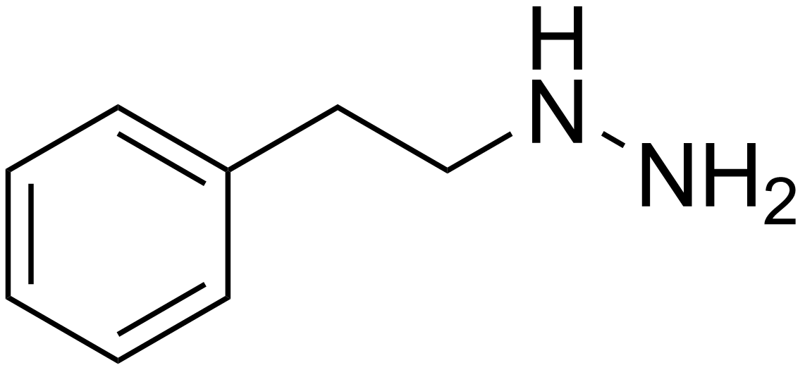 Chemical structure of phenelzine